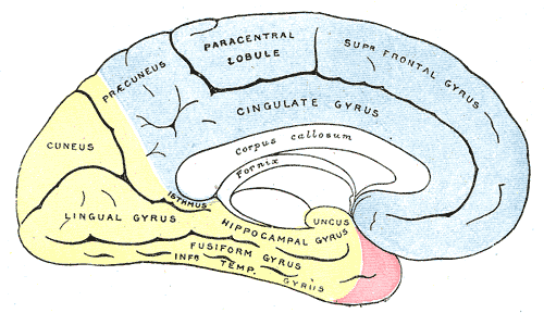 FIG. 518– Medial surface of cerebral hemisphere, showing areas supplied by cerebral arteries. blue - arteria cerebri anterior pink - arteria cerebri media yellow - arteria cerebri posterior